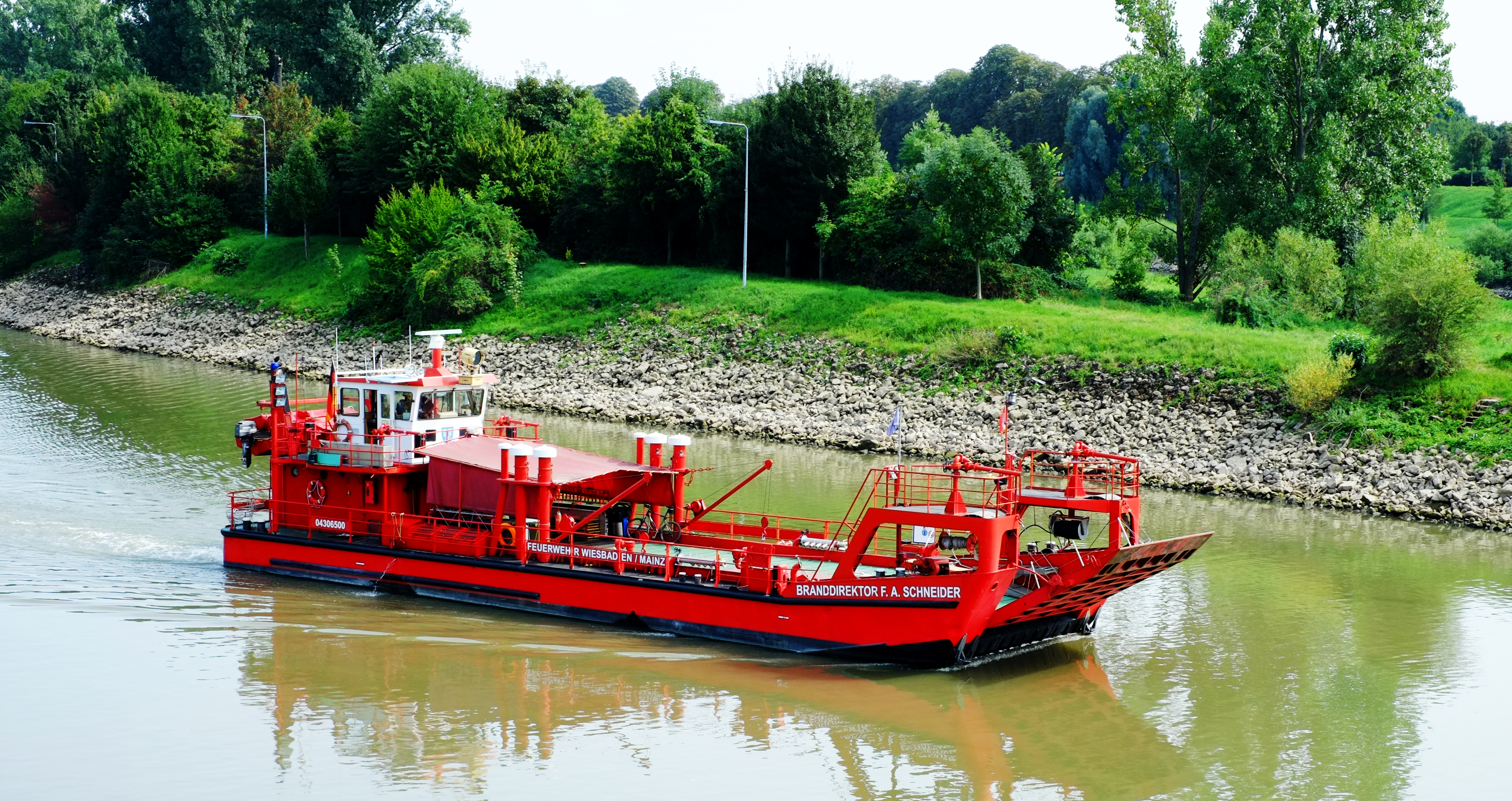 A fireboat on the Neckar River in Mannheim, Germany